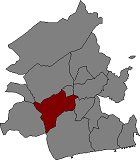 Location of Albinyana in Baix Penedès